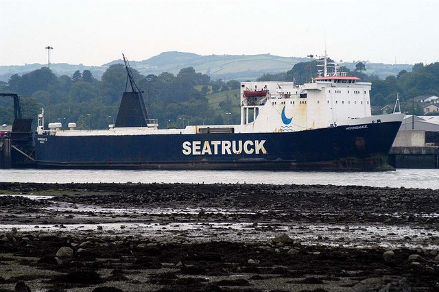 Moondance Warrenpoint Harbour IMO Number: 7800112 MMSI Number: 308825000 Callsign: C6HL6 Length: 117 m Beam: 18 m